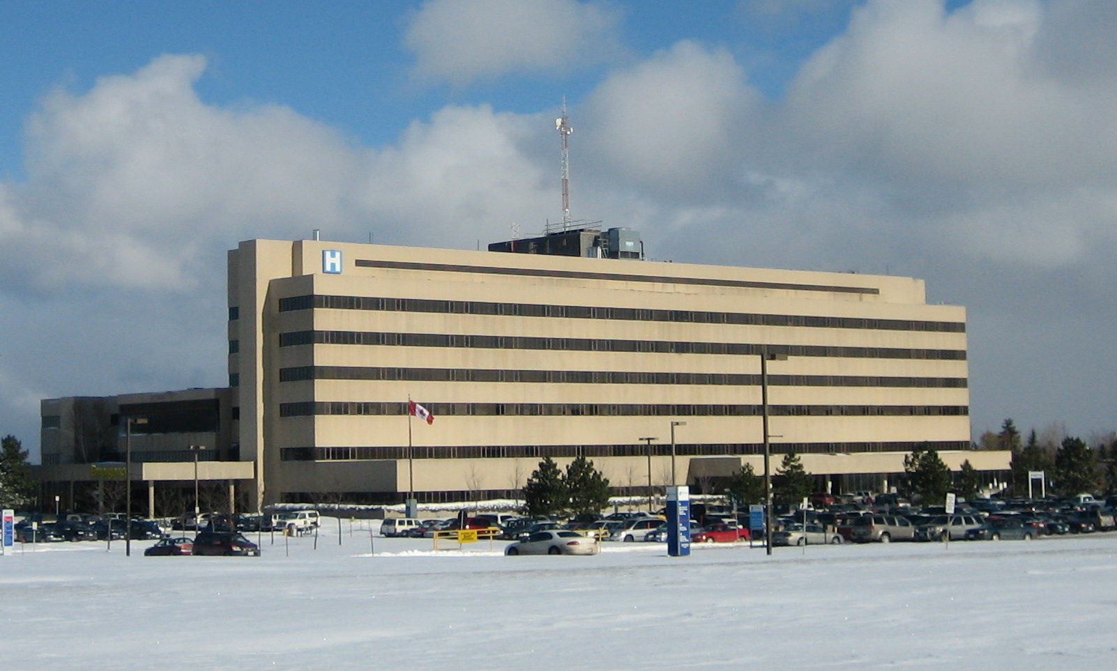 Grey Bruce Health Centre (Owen Sound, Ontario)